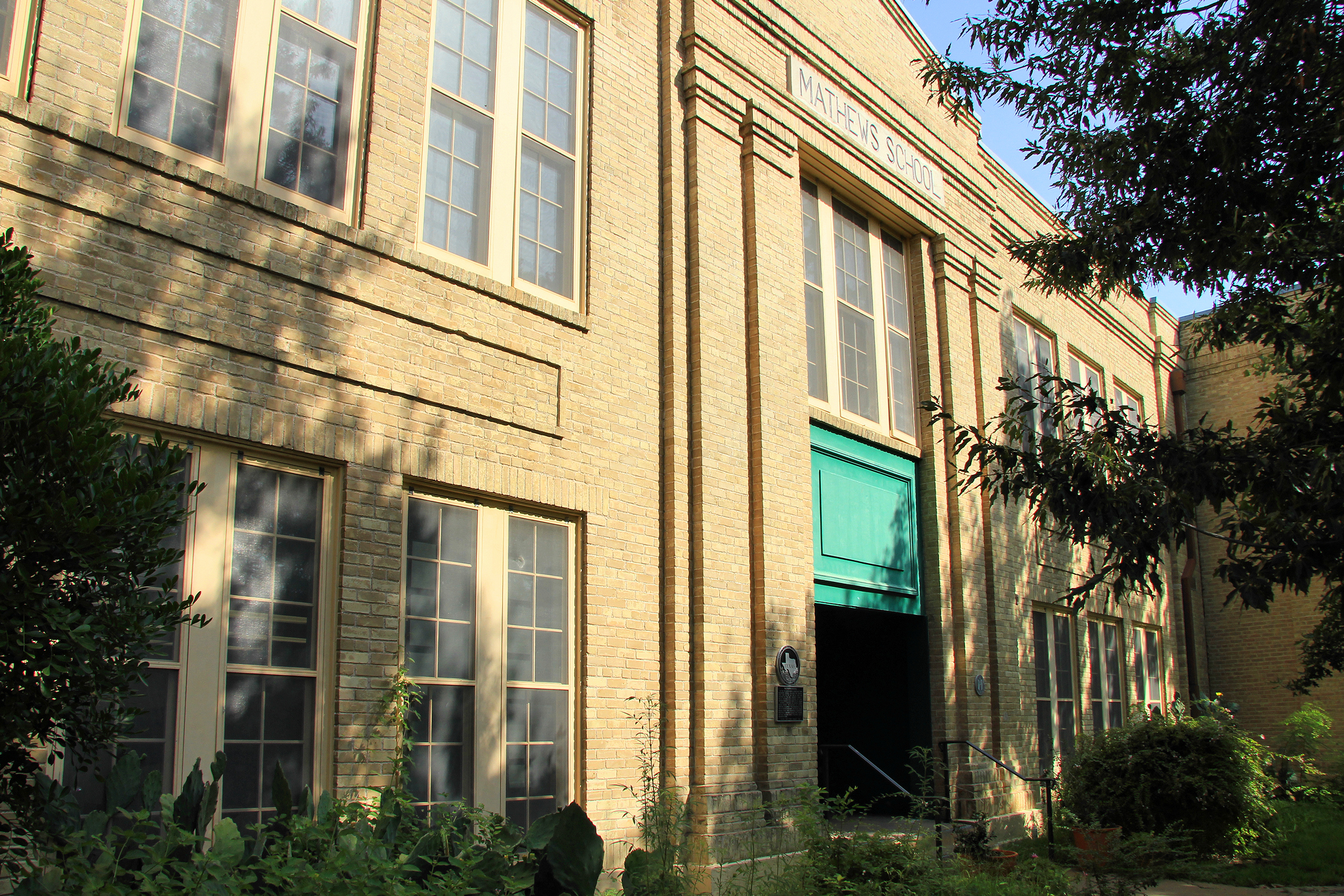 Mathews Elementary School, Austin, Texas, United States. The school was designated a Recorded Texas Historic Landmark in 2006.